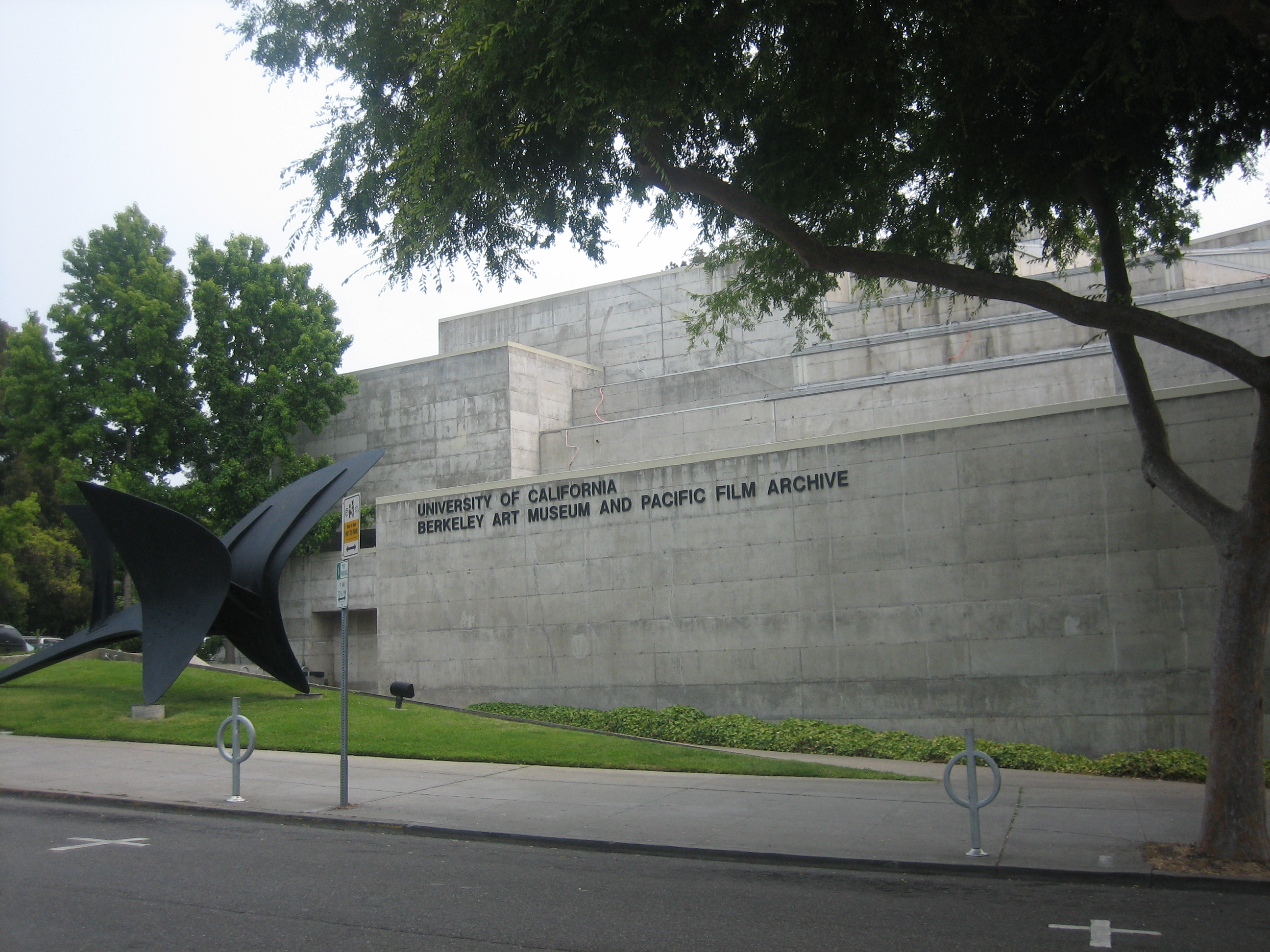 The University of California, Berkeley Art Museum, and former Pacific Film Archive — main building. This building is now closed and the museum relocated to a new facility in 2016.